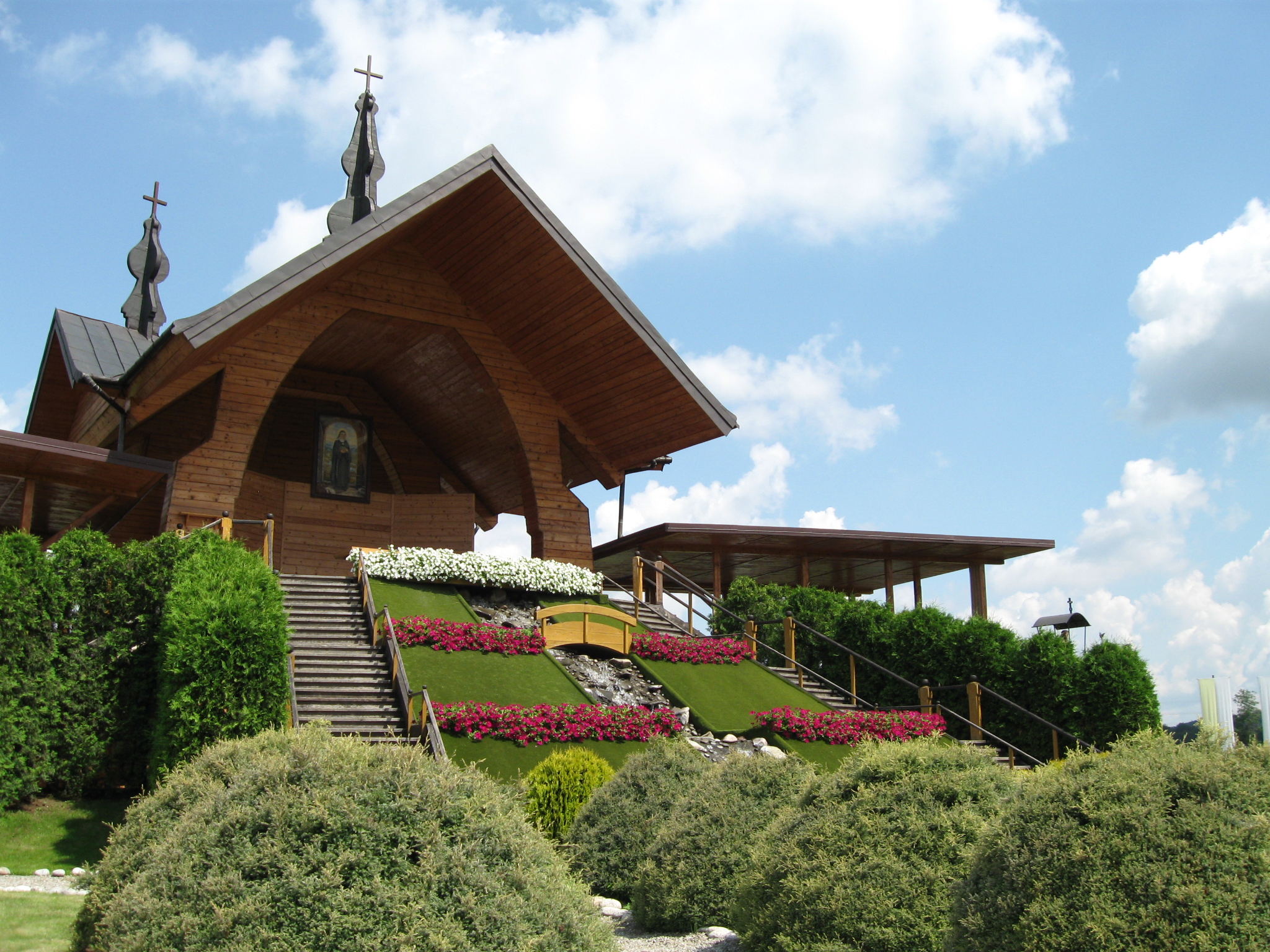 Altar in Stary Sącz, Poland, where pope John Paul II conducted a mass and canonized st. Kinga